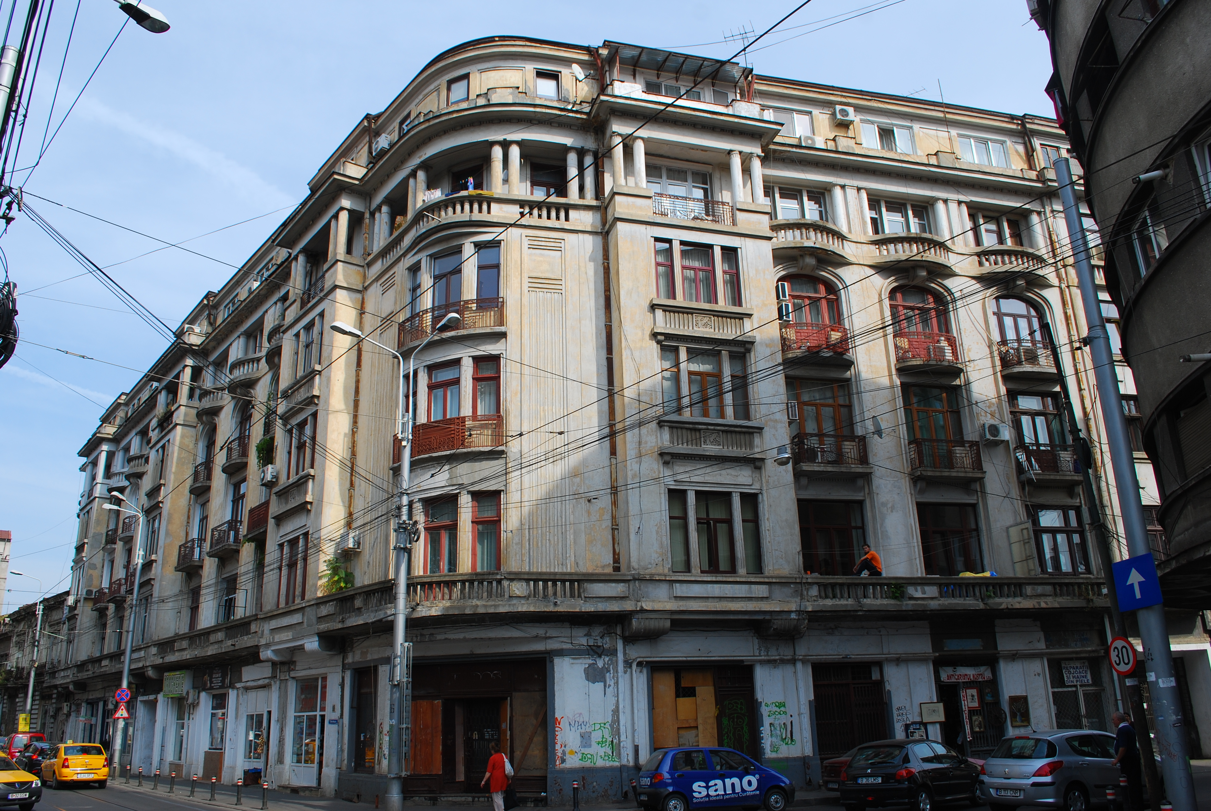 Historic building in Bucharest, Romania, on Calea Mosilor 88